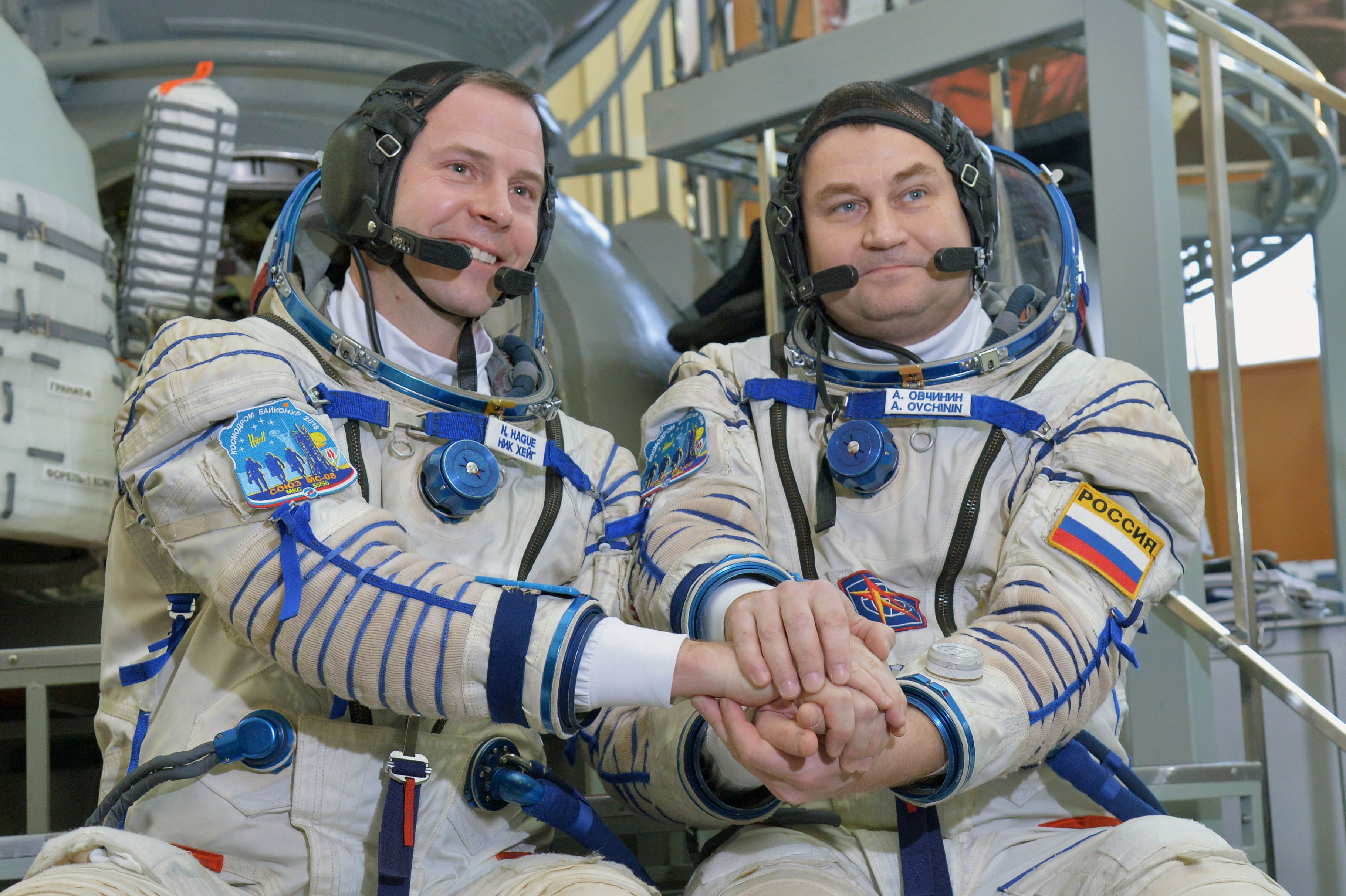 At the Gagarin Cosmonaut Training Center in Star City, Russia, Expedition 55 backup crew members Nick Hague of NASA (left) and Alexey Ovchinin of Roscosmos (right) pose for pictures during a day of qualification exams Feb. 20. They are serving as backups to the prime crew, Oleg Artemyev of Roscosmos and Ricky Arnold and Drew Feustel of NASA, who will launch March 21 on the Soyuz MS-08 spacecraft from the Baikonur Cosmodrome in Kazakhstan for a five month mission on the International Space Station.